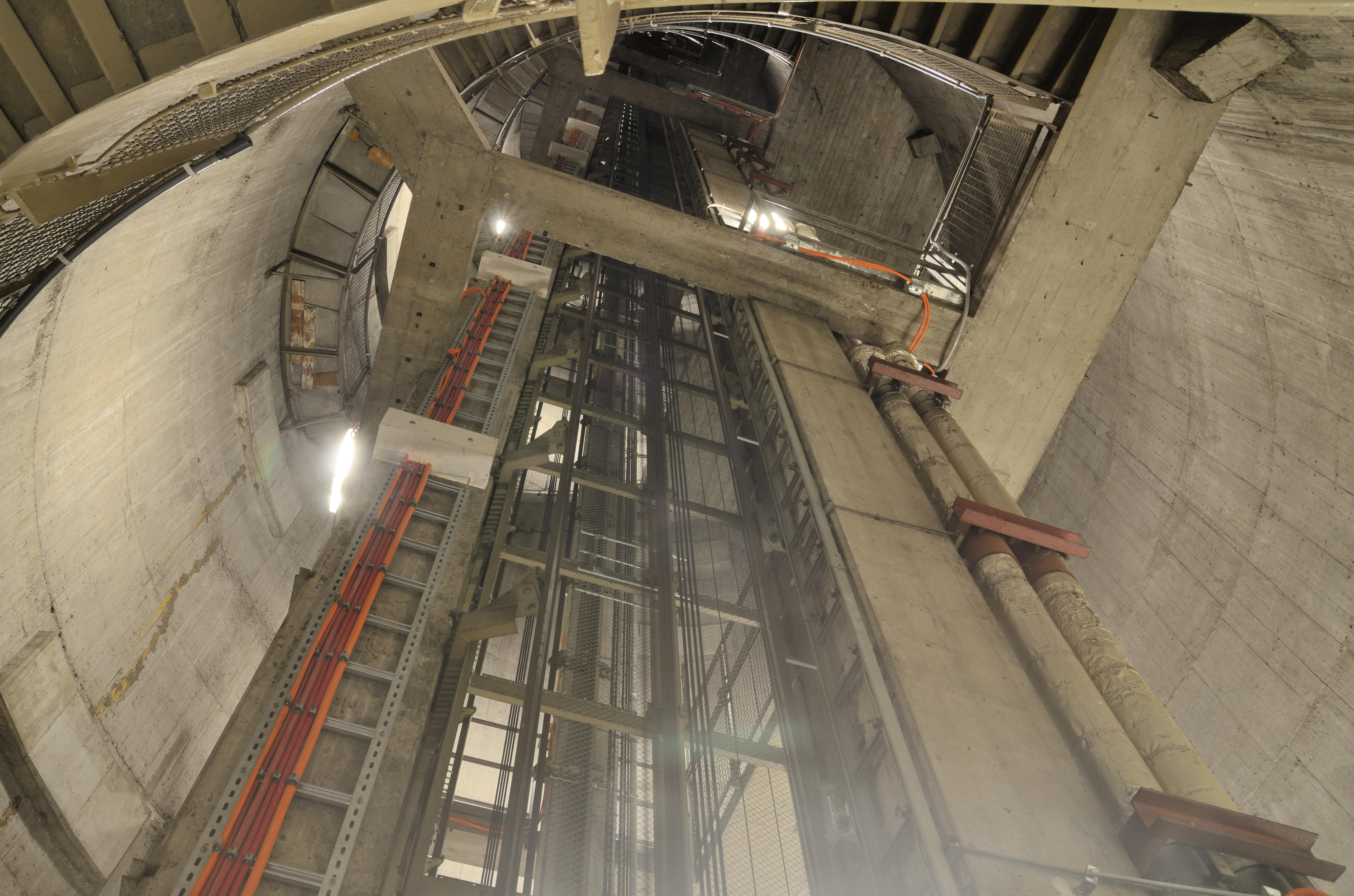 Television Tower Stuttgarter: shank from interior